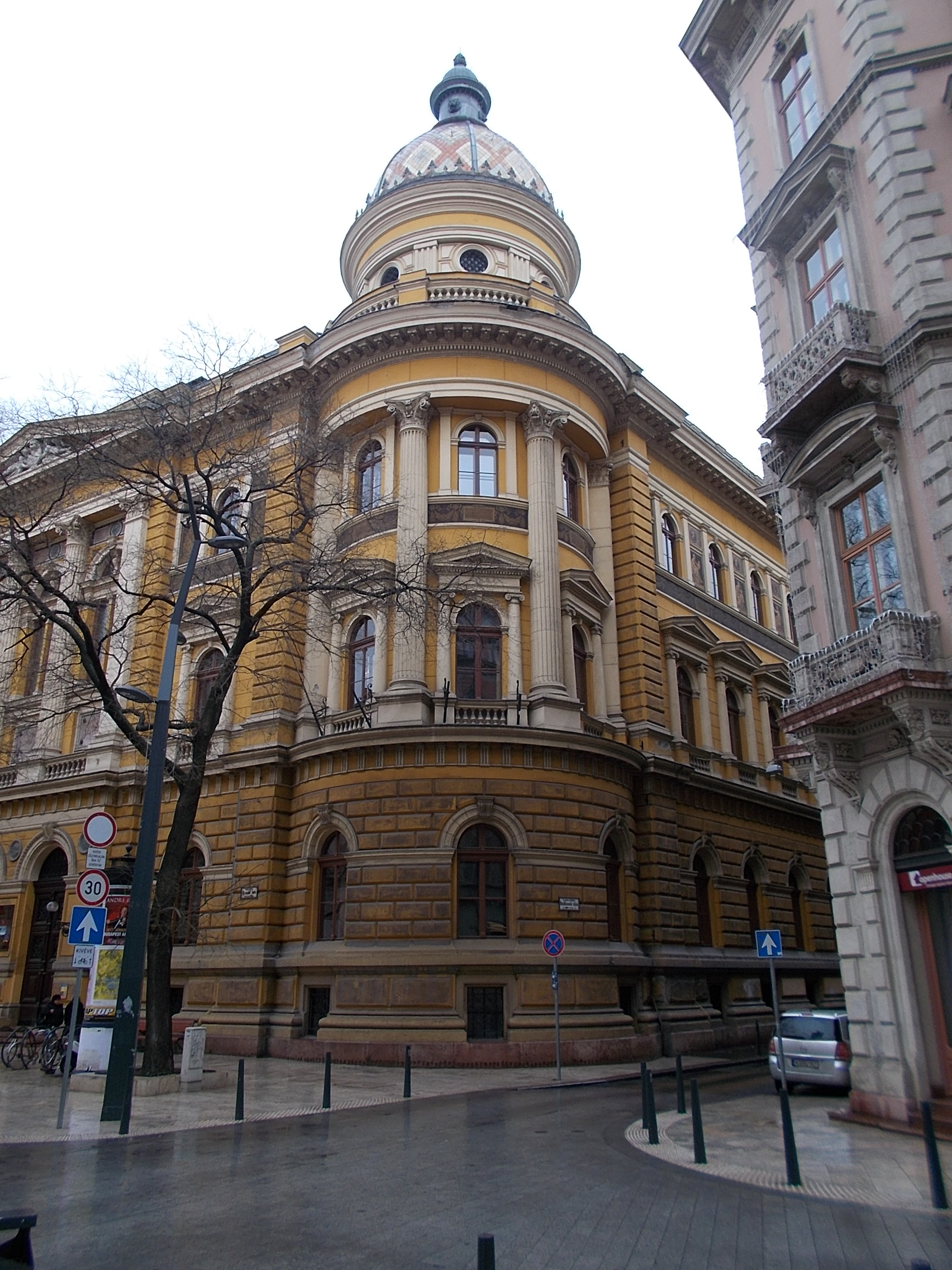 University Library of Eötvös Loránd University. - Ferenciek tere, Inner City neighborhood, Budapest District V. Hungary.